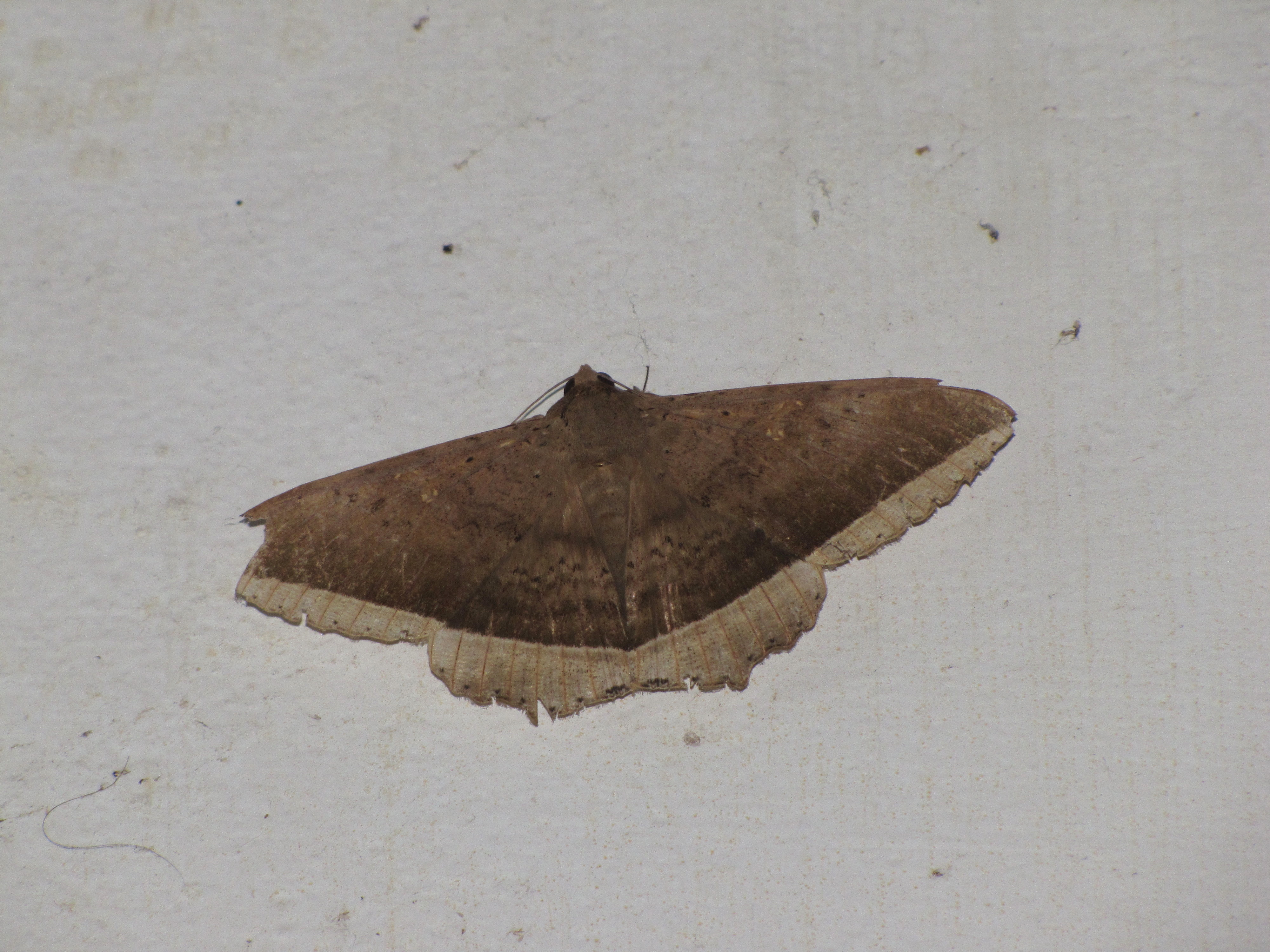 Hulodes caranea(moth) from Koovery